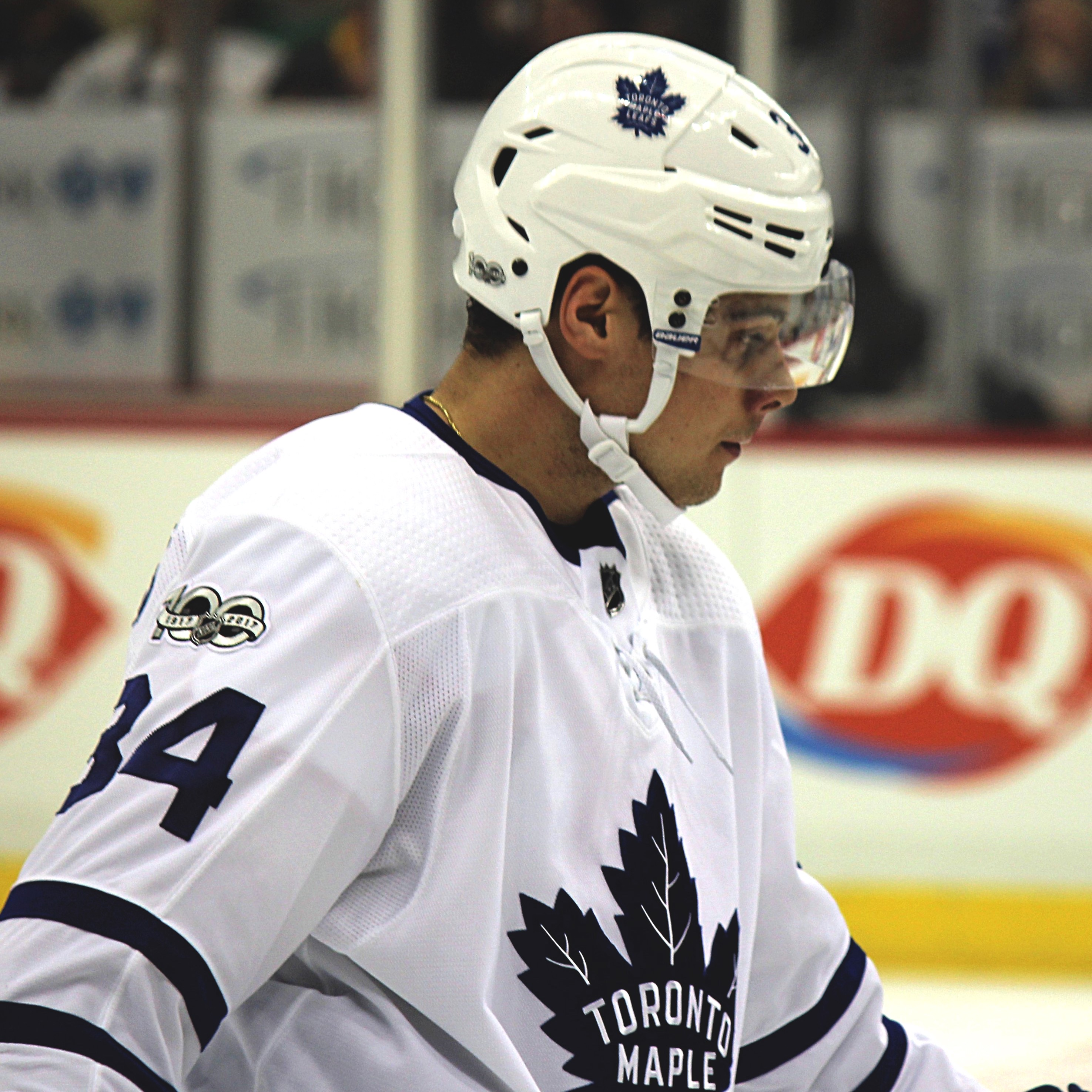 Toronto Maple Leafs forward Auston Matthews during a game against the Pittsburgh Penguins, December 9, 2017, at PPG Paints Arena in Pittsburgh, PA.